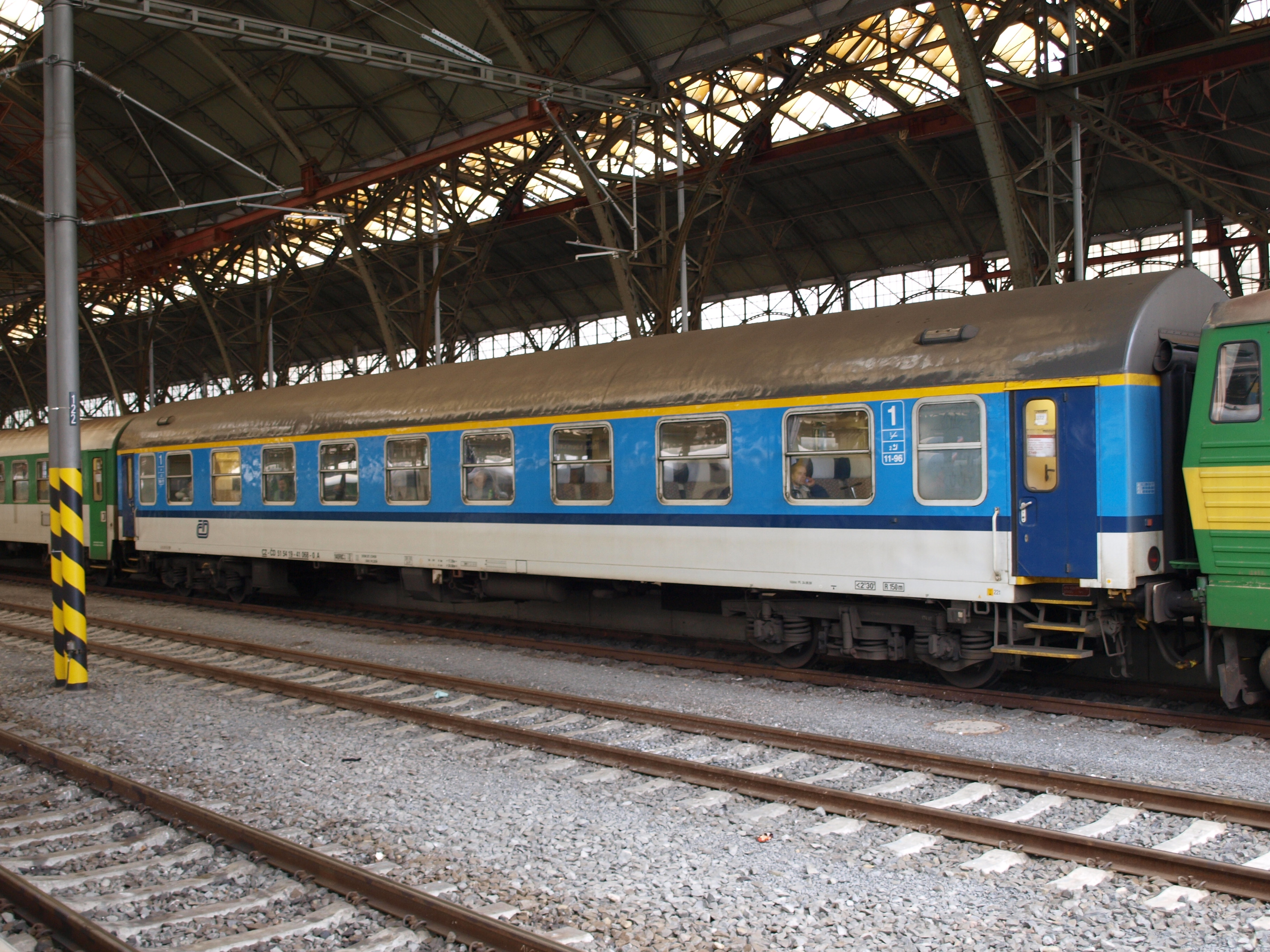 Passager coach Class A 51 54 19-41 068-0 at Prague main station